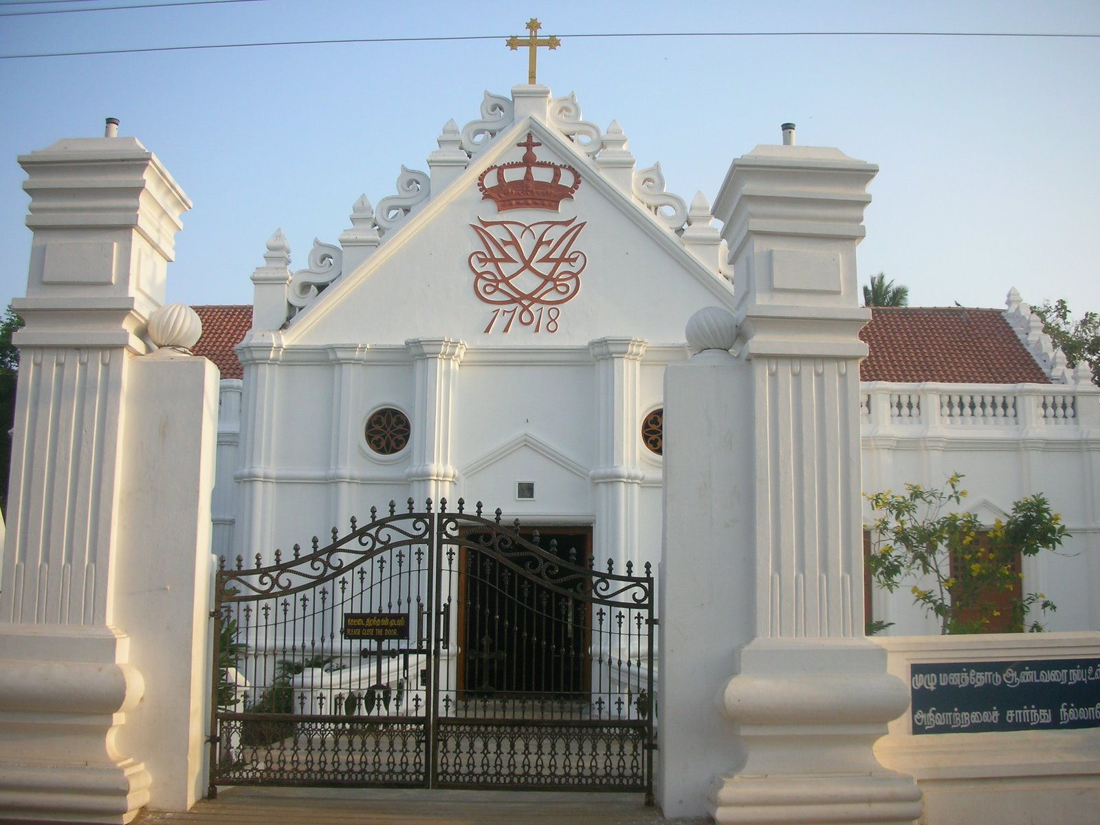 The New Jerusalem Church in Tranquebar was build between 1707 and 1718. In the cemetary is the burial plot by Bartholomäus Ziegenbalg.